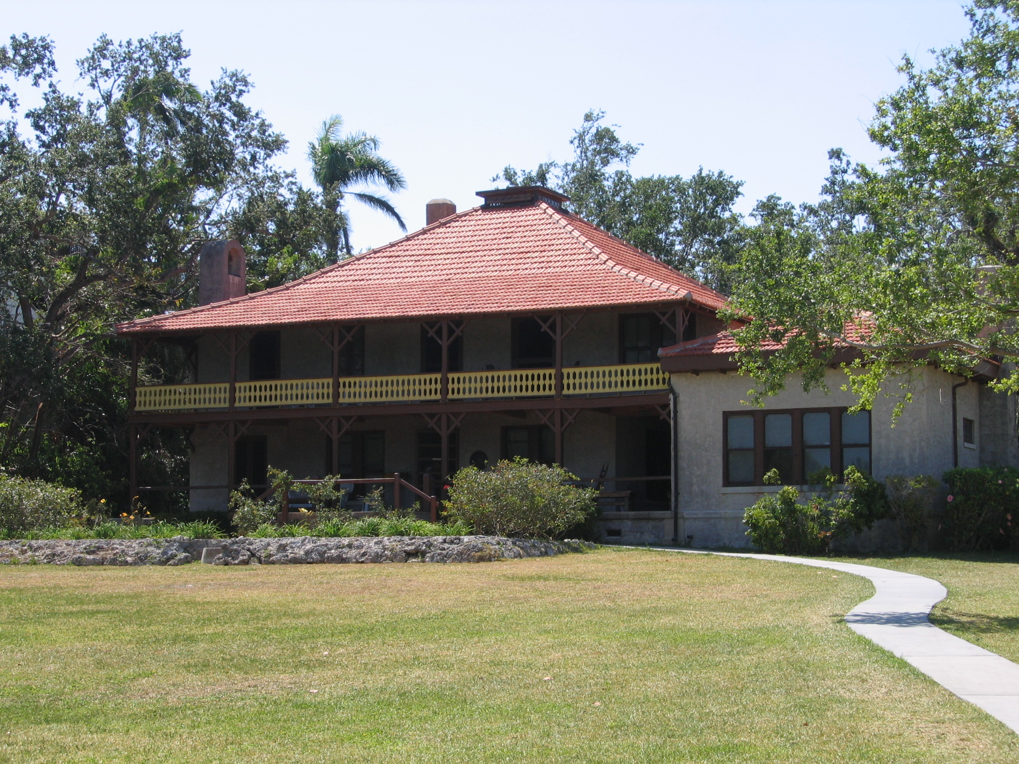 Author: Daniel M. Perez.